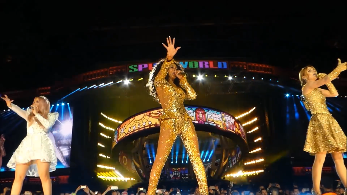 Spice Girls performing at Wembley Stadium, 14 June 2019